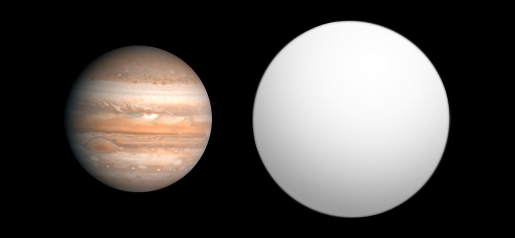 Comparison of best-fit size of the exoplanet XO-4 b with the Solar System planet Jupiter, as reported in the Extrasolar Planets Encyclopaedia[1] as of 2010-10-03. ↑ Extrasolar Planets Encyclopaedia (2010-09-30). Retrieved on 2010-10-03.